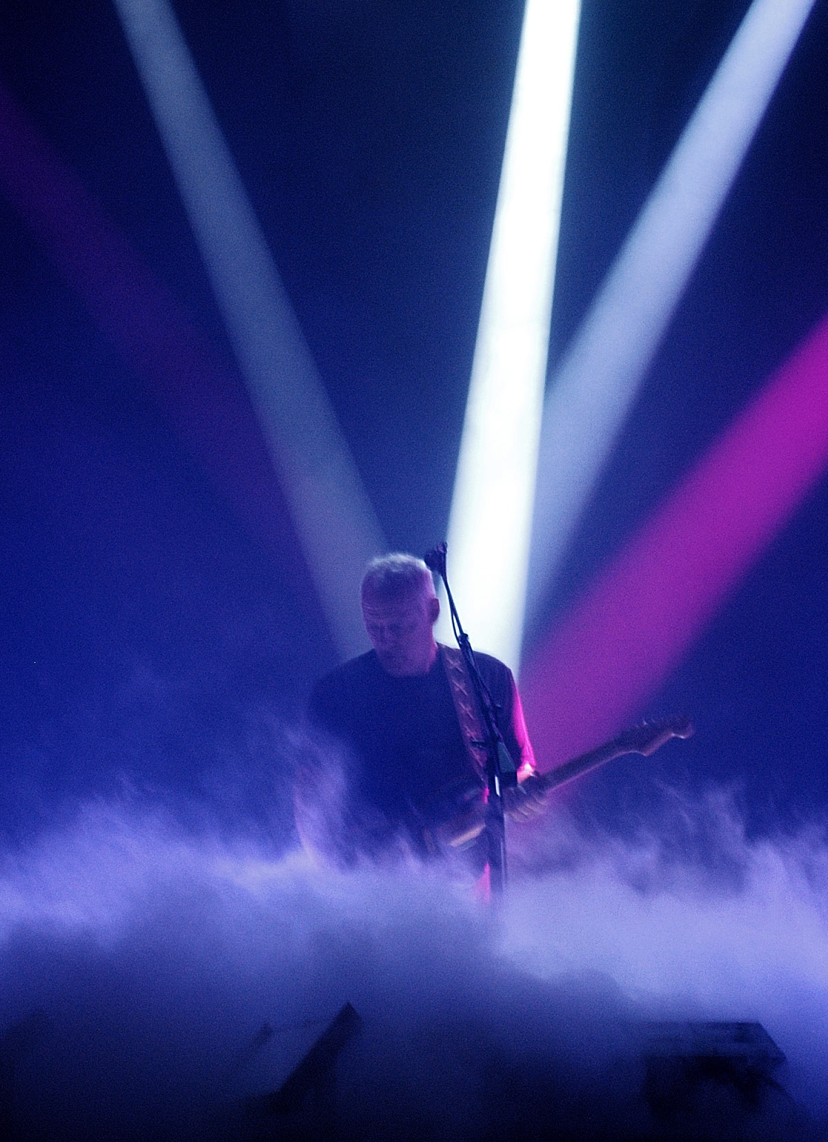 David Gilmour in concert in Munich, Germany : Gilmour 'Echoes Pt. 2'.